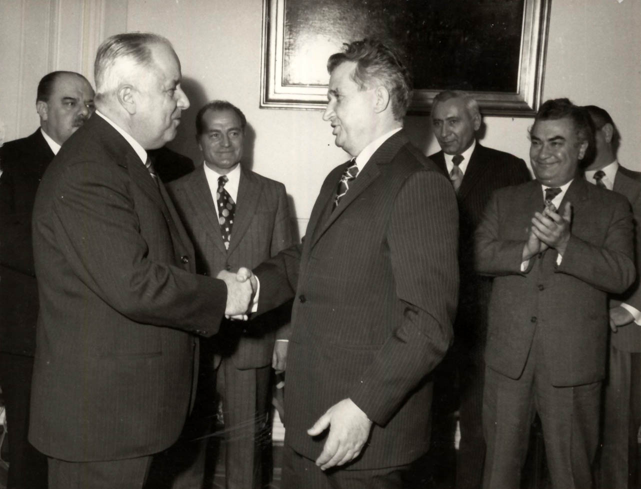 Emil Bobu receiving a medal from Nicolae Ceausescu.